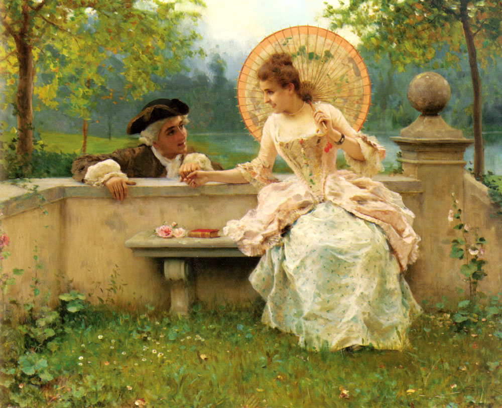 A Tender Moment in the Garden